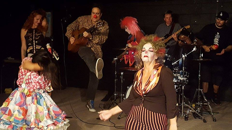 Richard Rossi playing guitar in scene from new film Canaan Land. Drummer D.J. Peligro from Dead Kennedys is on drums.